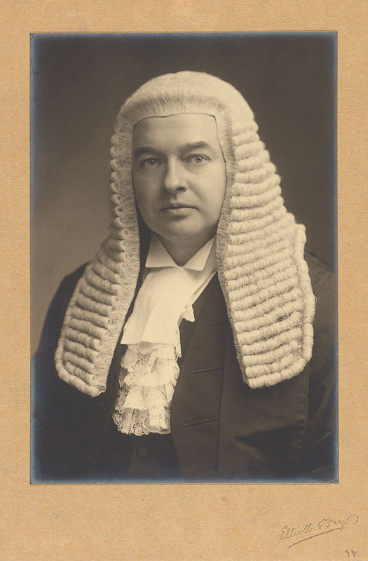 A portrait of British politician and judge Gordon Hewart, 1st Viscount Hewart (7 January 1870 – 5 May 1943).